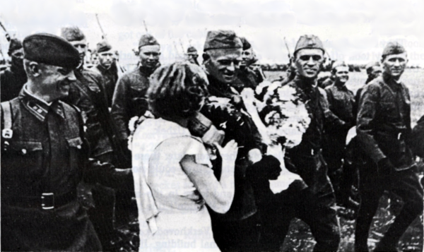 Soviet soldiers during occupation of lithuanian republic in june 1940